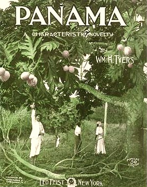 Panama, 1910